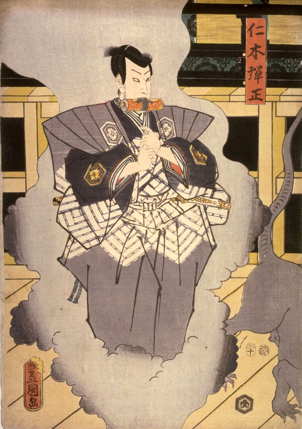 Actor Bandô Hikosaburô V as Nikki Danjo, 1857. Color woodcut: 36.8 x 25.2 cm (image slightly cleaned)